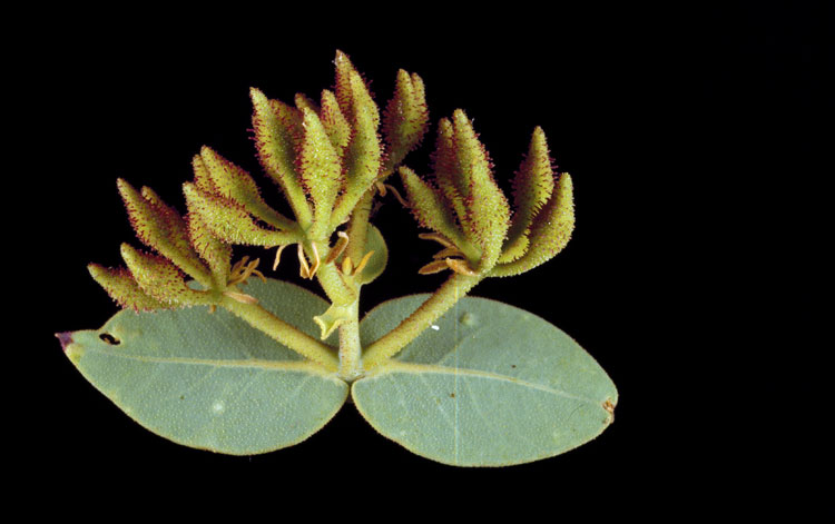 Flower buds of Corymbia setosa taken at north of Three Ways